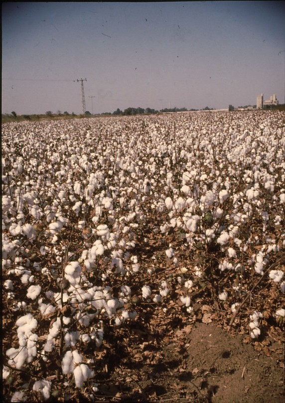 Gan-Shmuel - Coton field, Agriculture in Israel